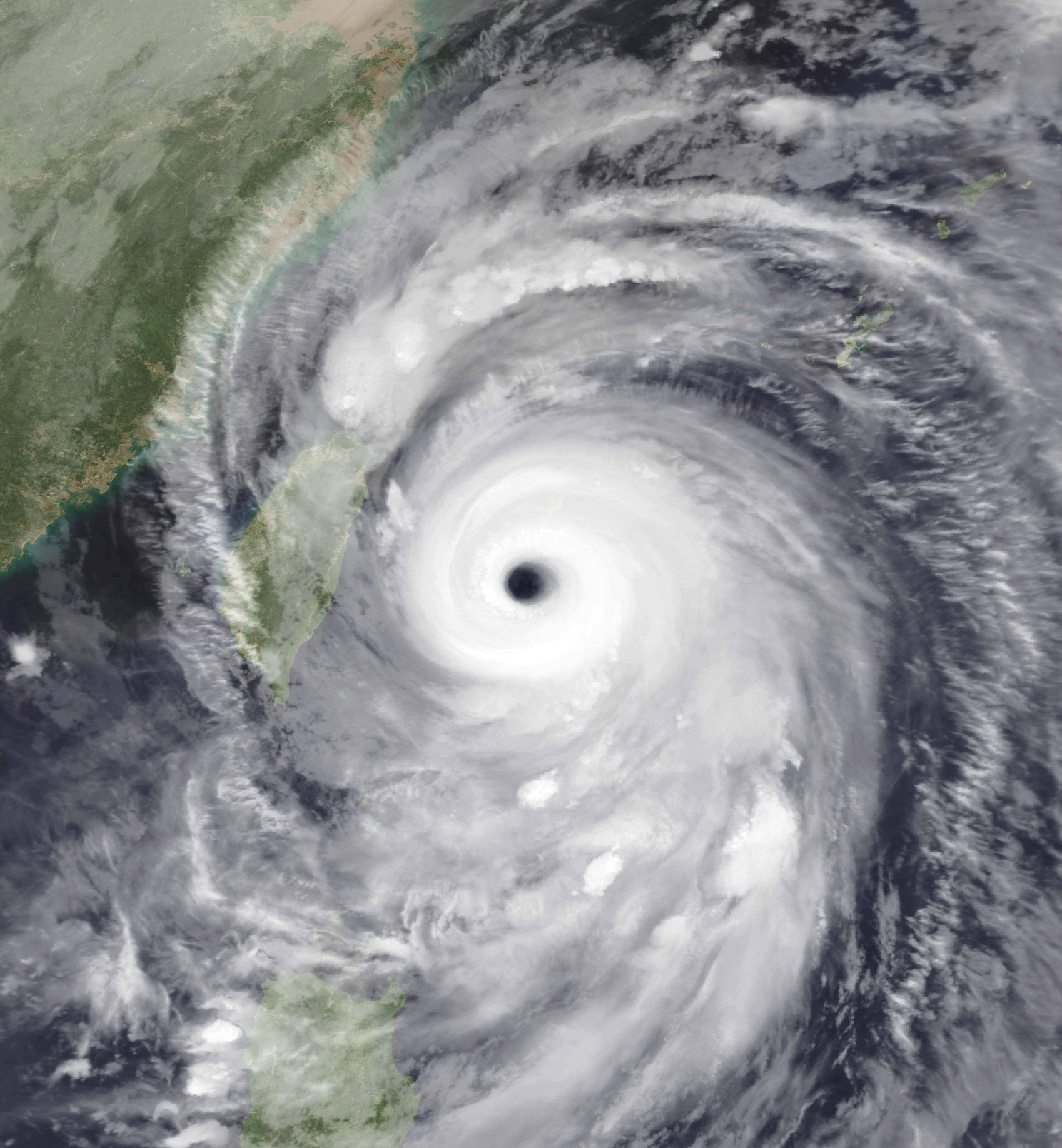 Typhoon Shanshan prior to reaching peak intensity on September 15, 2006